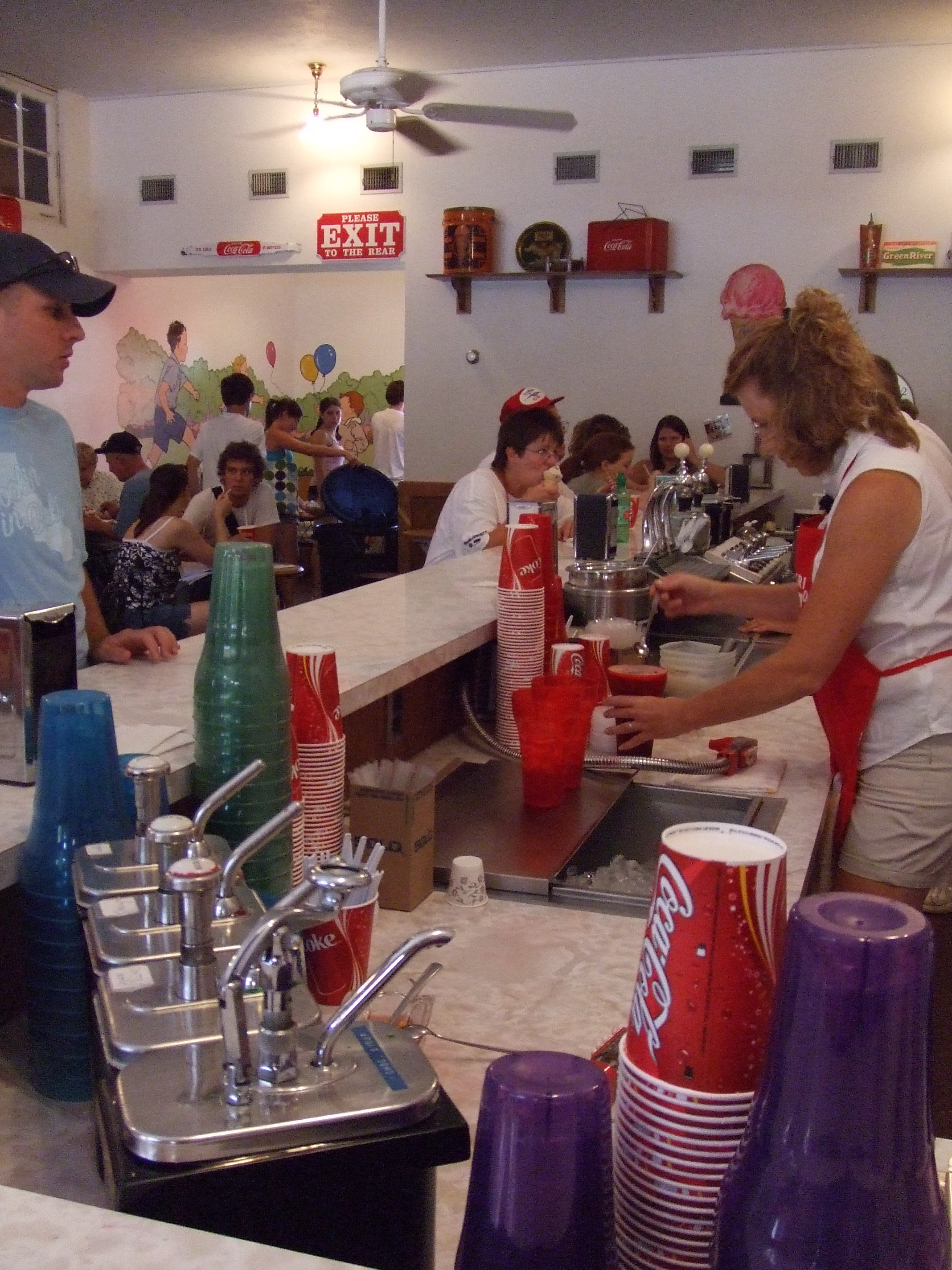 Soda shop in Nashville, Tennessee, USA. A Soda shop, also often known as a Malt shop, is a business akin to an ice cream parlor and a drugstore soda fountain.